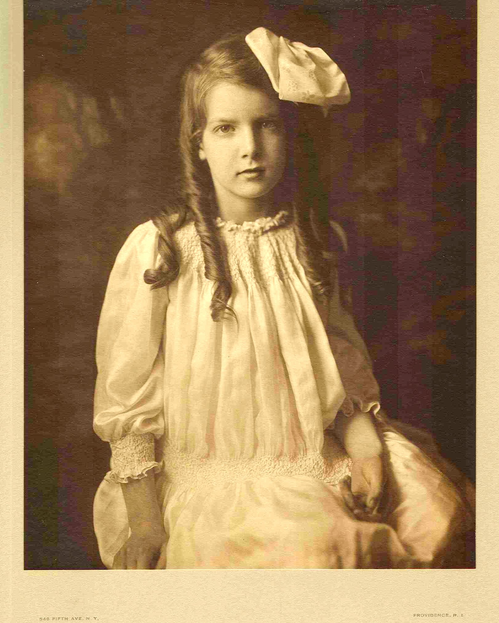 A formal studio portrait of Mabel H. Grosvenor, taken at a studio at 546 Fifth Avenue, New York City, possibly that of Robert Haas. The original photograph is contained in the Grosvenor Family Collection.